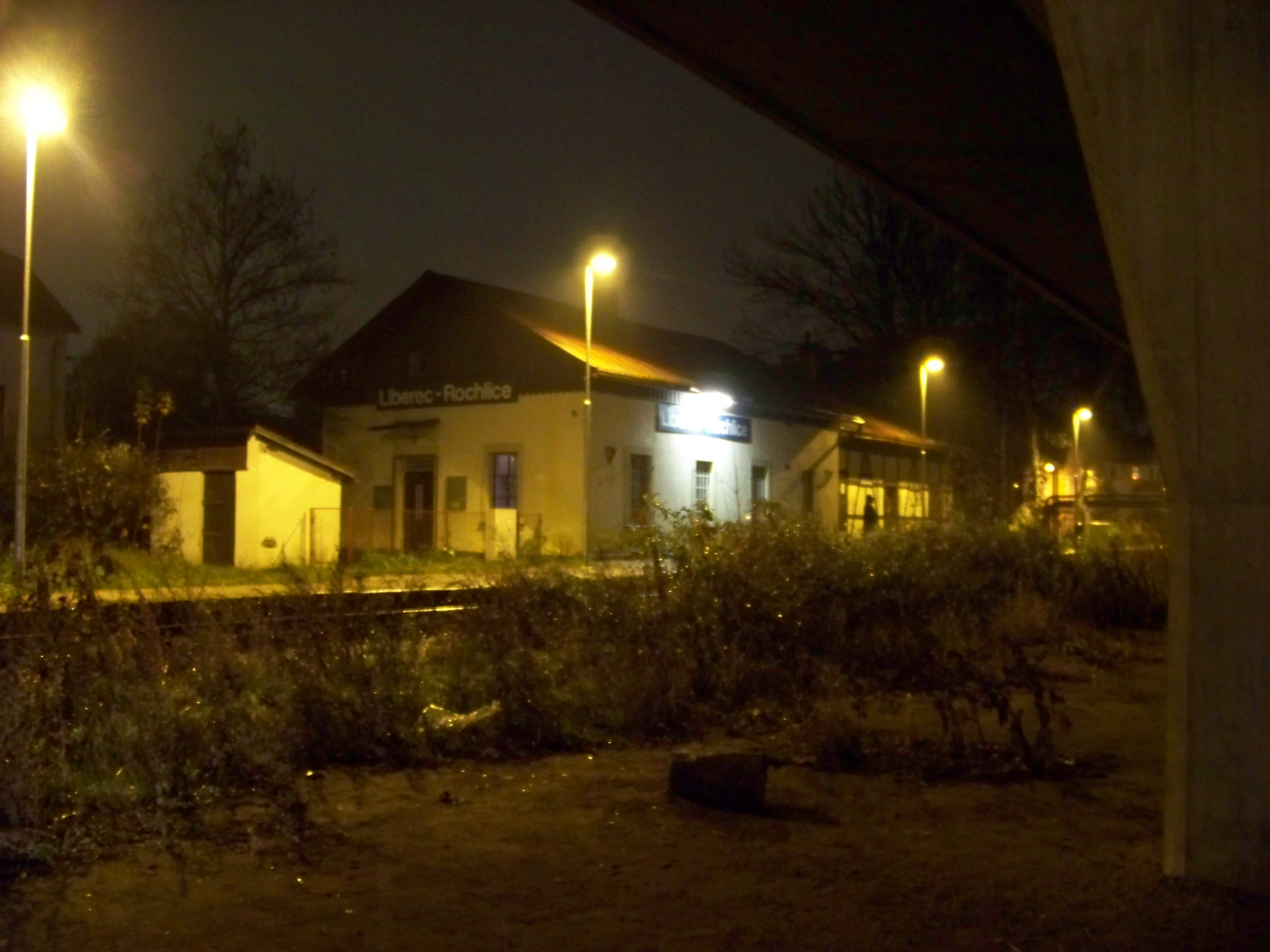 Liberec VI-Rochlice, Liberec District, Liberec Region, Czech Republic. Train stop Liberec-Rochlice.